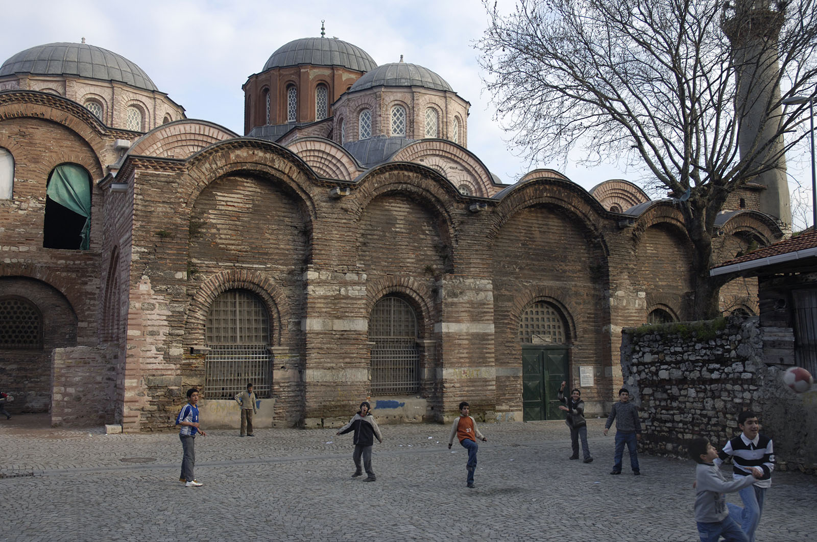 The pantocrator is a composite of two churches and a chapel between them. It was built between 1120 and 1136. The southern church was built by Empress Eirene, wide of John II Comnenus and dedicated to St. Saviour Pantocrator, Christ Almighty. In the later 2010's it was being restored, it is to re-open as a museum.